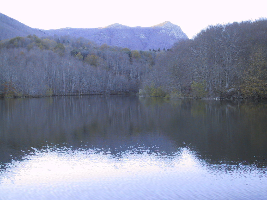 Santa Fe, Montseny, Catalonia (Spain). I made the photo on november 10th 2002.